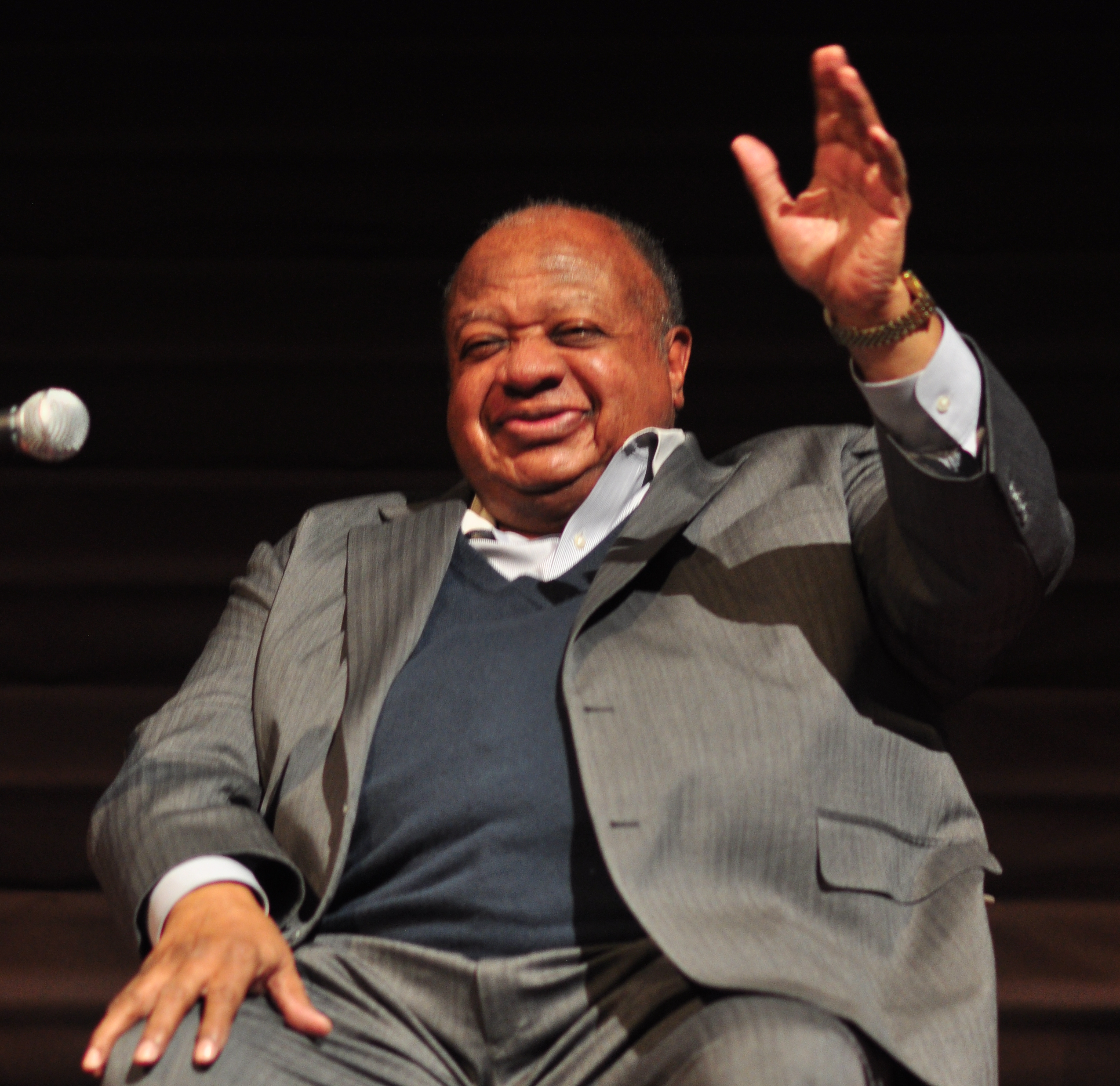 Saxophonist Barney Hilliard, best known from the Dave Lewis Combo, on a panel "Local 76-493: Jazz and the Racial Integration of Seattle's Musicians' Union", Museum of History and Industry, Seattle, Washington, U.S.